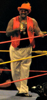 Paul Wright as The Godfather during Hulk Hogan's Hulkamania Tour in November 2009.